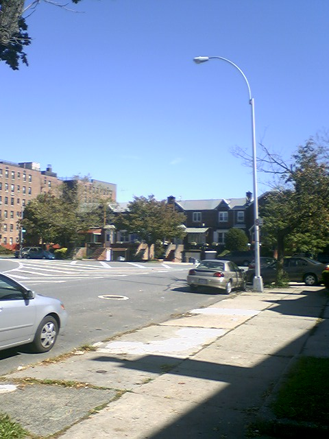 Buildings along the Kings Highway, one of major transportation arteries of Brooklyn.